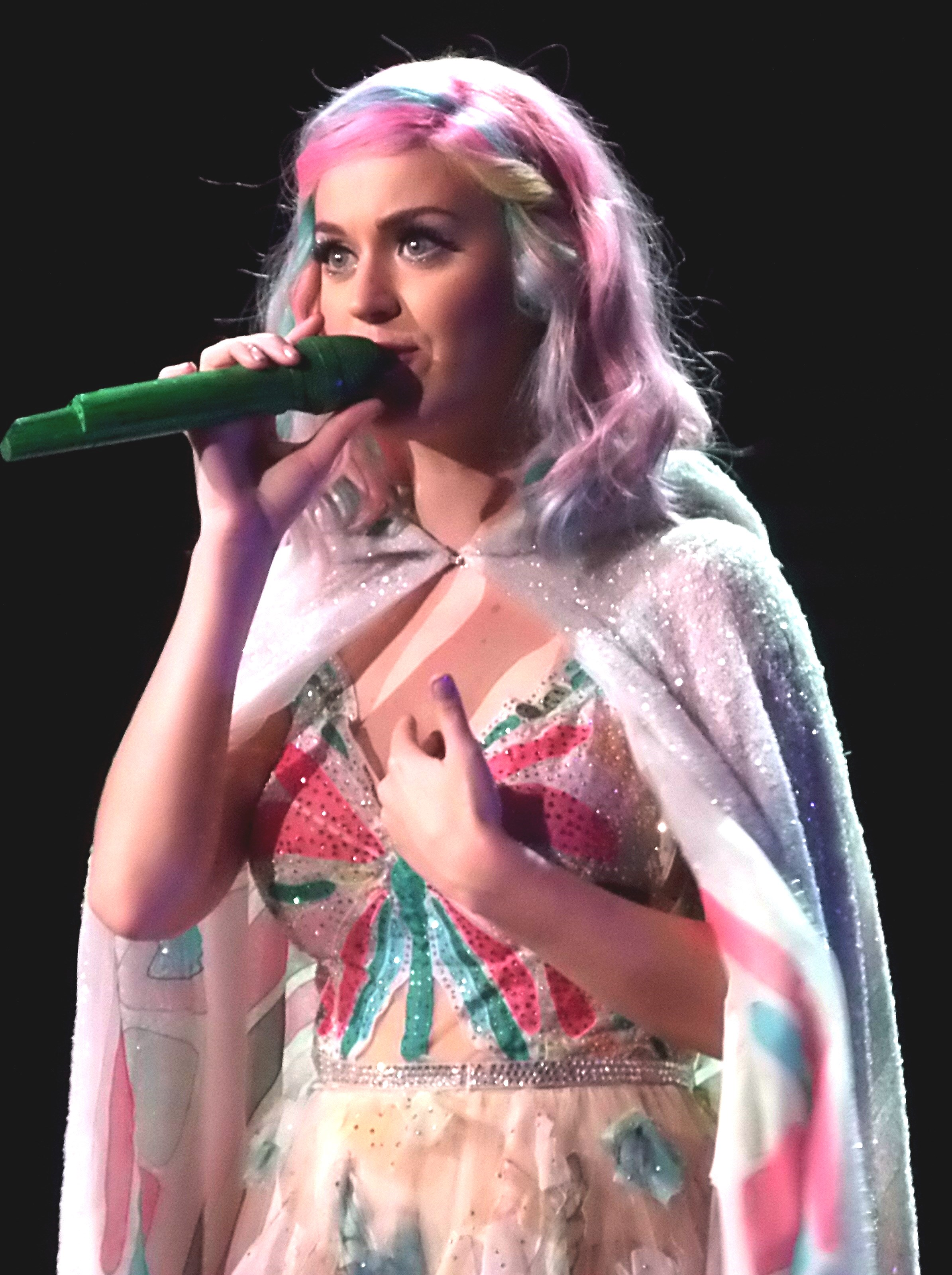 Katy Perry performing at BB&T Center in Sunrise, Florida in July 2, 2014.